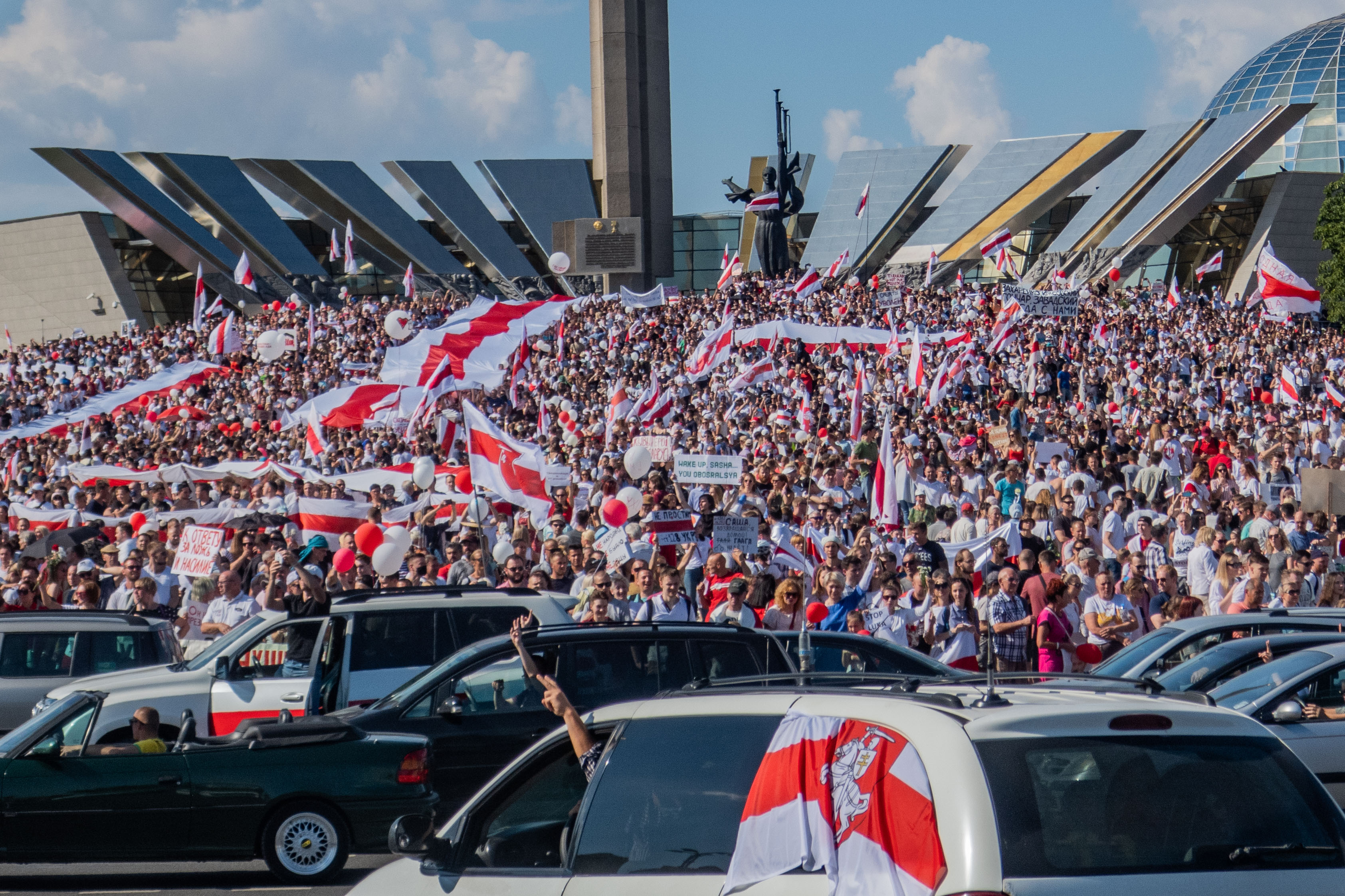 Protest rally against Lukashenko, 16 August. Minsk, Belarus